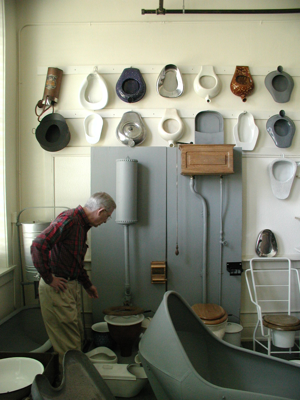 Brady C. Jefcoat Museum Murfreesboro (Hertford County, N.C.)